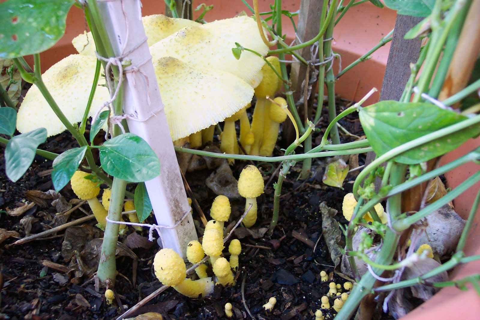 Mushrooms growing in a pot Taken by Enoch Lau on 24 February 2003. As a courtesy, please let me know if you alter this image or this image description page. Original filename was 100_0171.JPG. It is Leucocoprinus birnbaumii formerly named Lepiota lutea. --Jplm 11:18, 10 November 2007 (UTC)